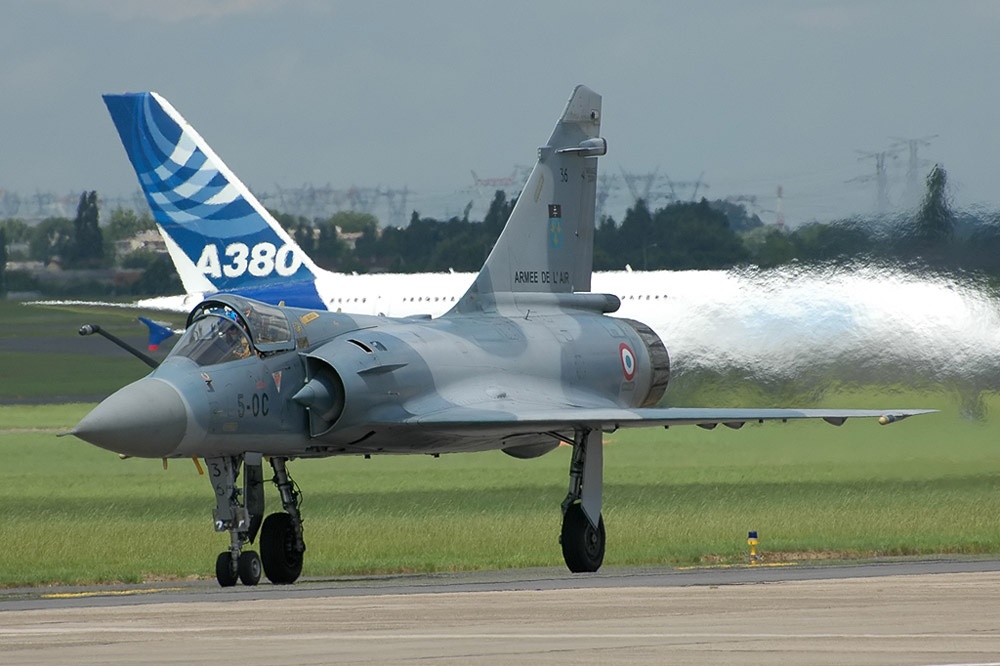 Dassault Mirage 2000C, Airbus A380 in the background.